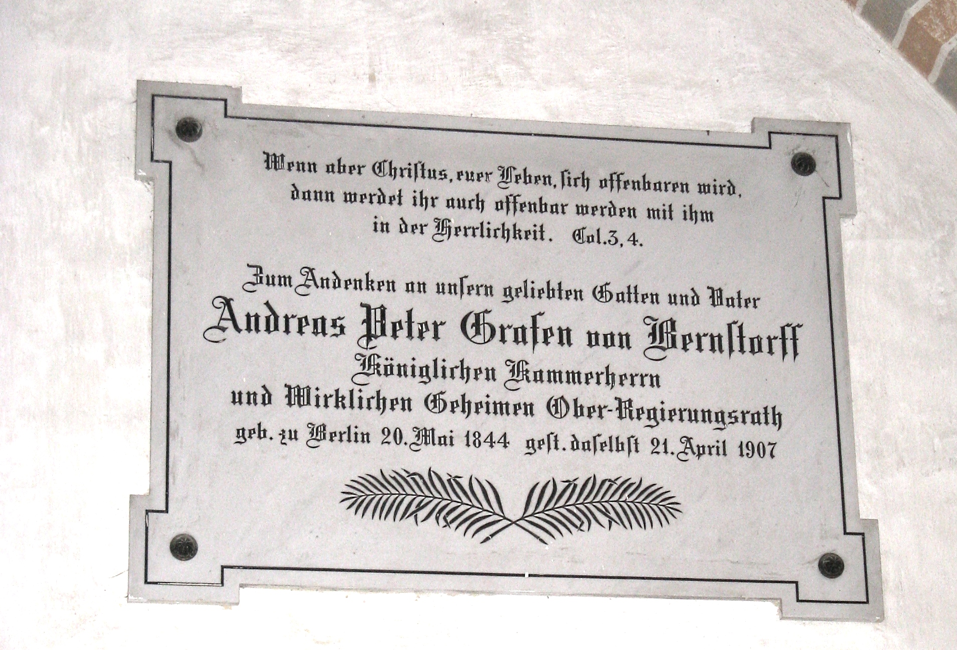 Memorial for Andreas Peter Graf von Bernstorff in in the Church St. Abundus in Lassahn, Mecklenburg-Vorpommern, Germany